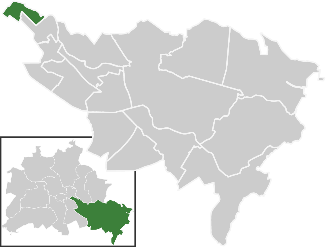 Localitie Alt-Treptow in borough Treptow-Köpenick of Berlin.